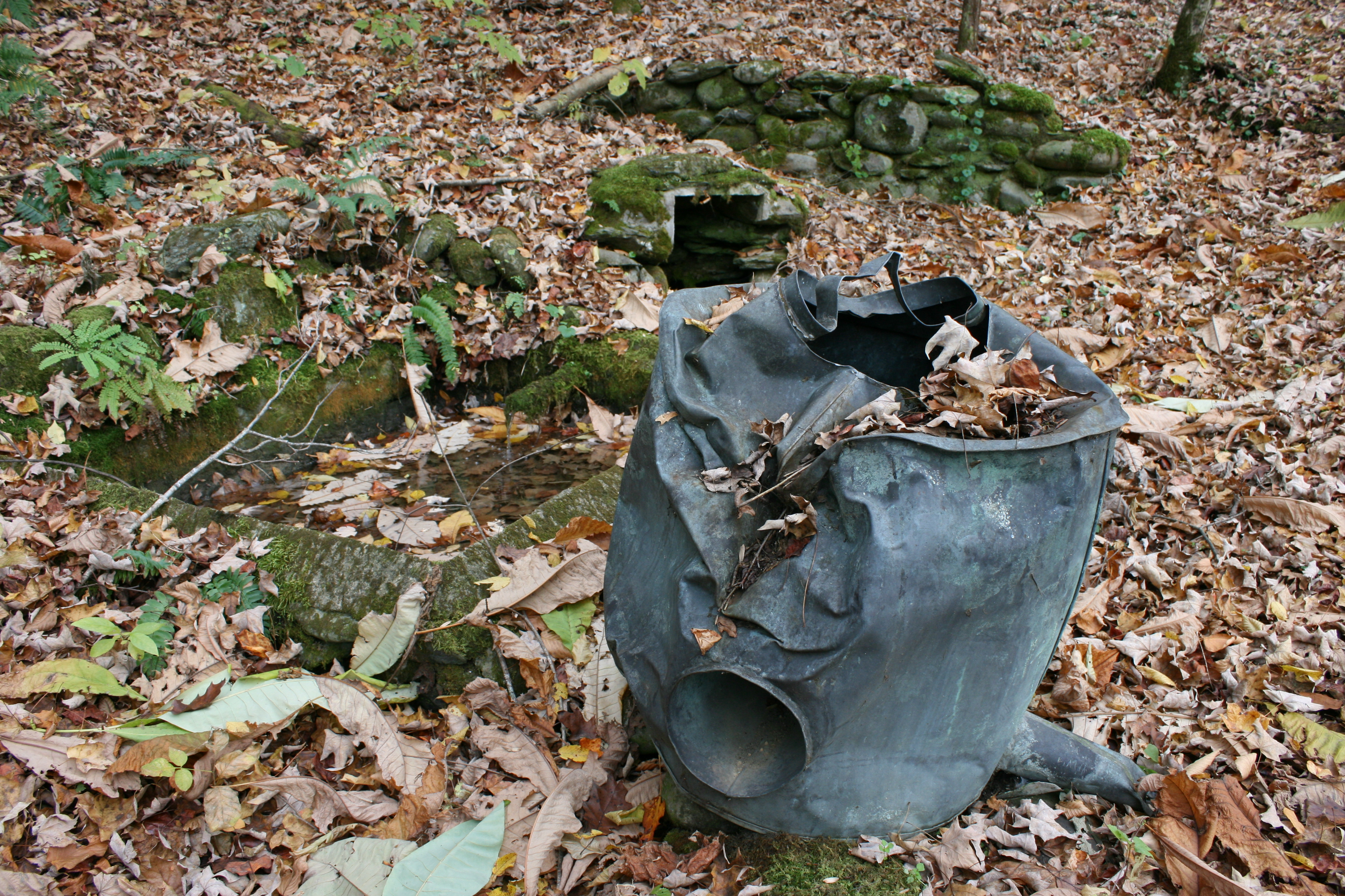 Disable moonshine still used to attract tourists to Perry's Camp.